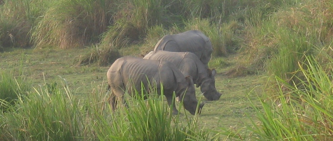 Three Indian Rhinoceroses (Rhinoceros unicornis) grazing in the Kaziranga National Park in the soft afternoon light.